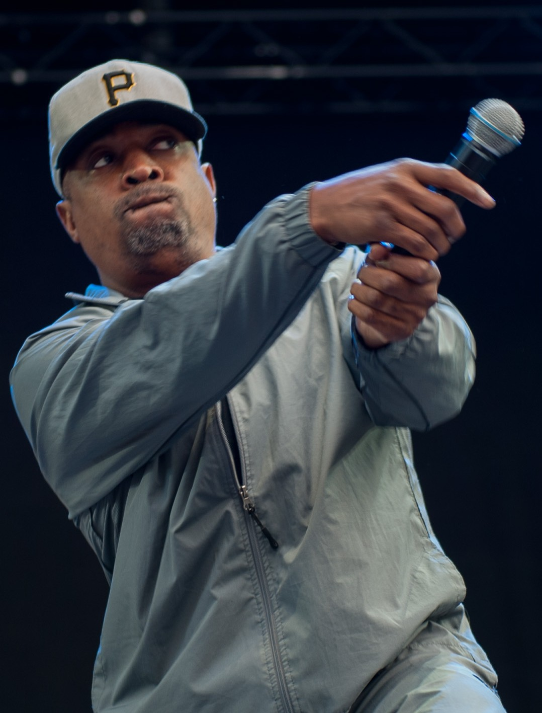 Chuck D of Public Enemy at Way Out West 2013 in Gothenburg, Sweden